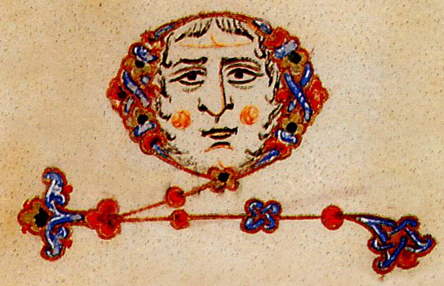 Armenian letter Զ from Gospel of Skevra